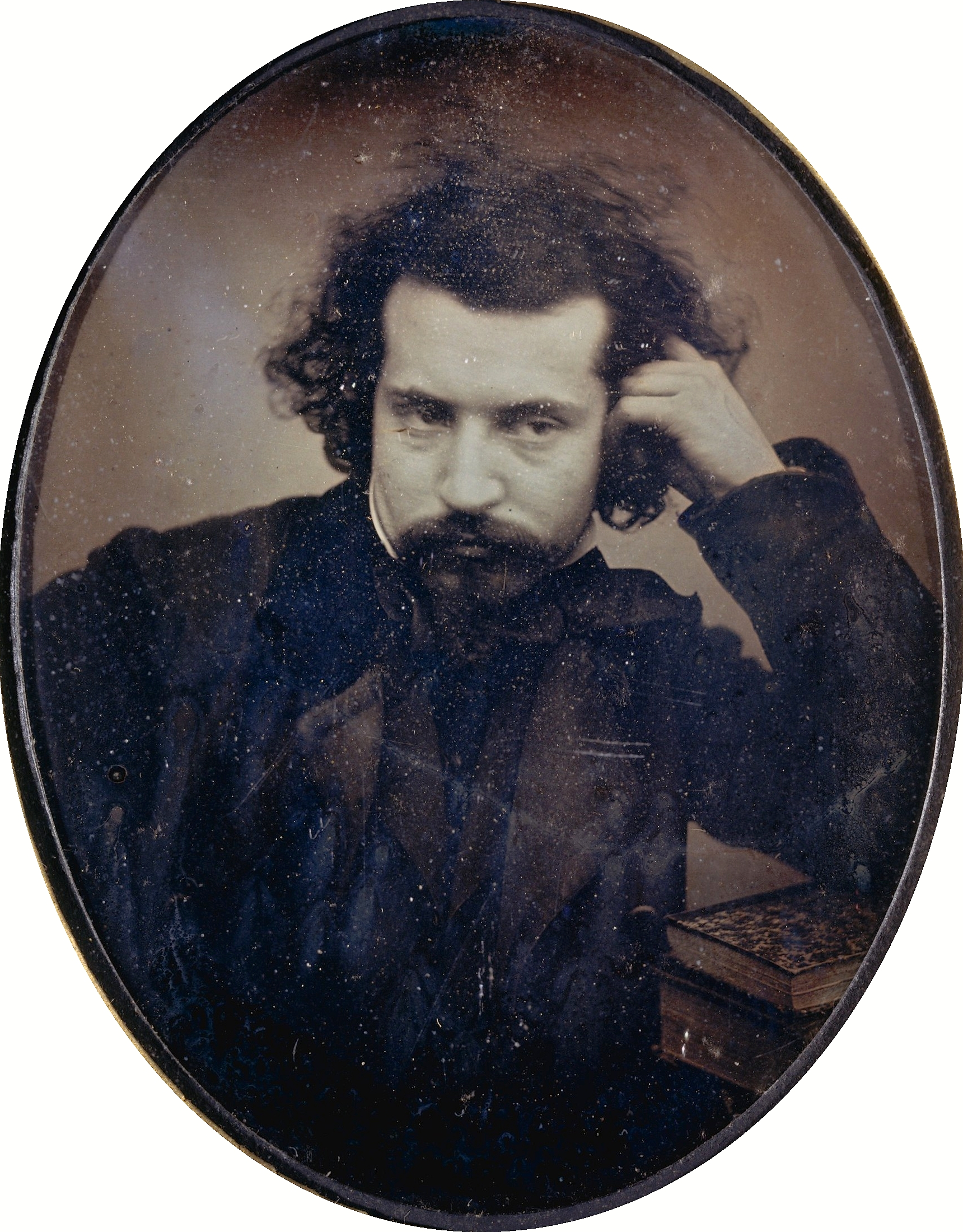 Portrait de Henri Charles Maniglier, daguerreotype d'auteur inconnu vers 1850. The Metropolitan Museumof Art, New York